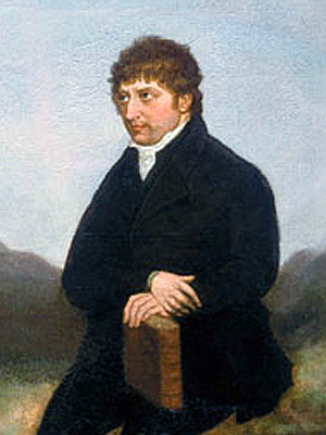 The chiefs Waikato and Hongi Hika with missionary Thomas Kendall in England, oil painting by James Barry, 1820. National Library of New Zealand Te Puna Mātauranga o Aotearoa, Alexander Turnbull Library, Wellington (Ref:G-618) (Image cutting)